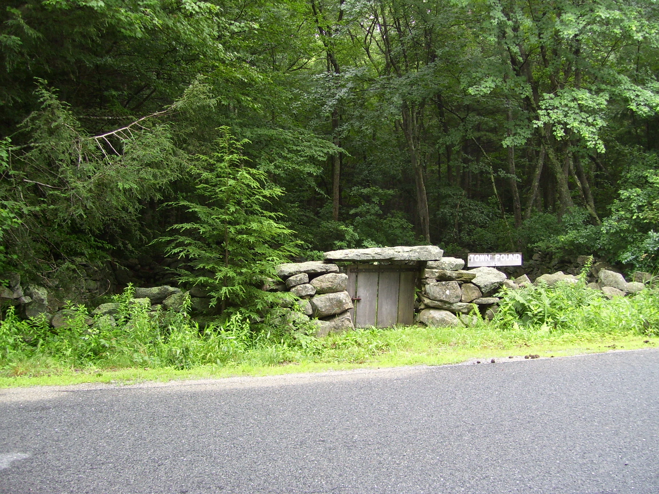 This is my 2008 photo of the Foster Town Pound in Foster, Rhode Island.